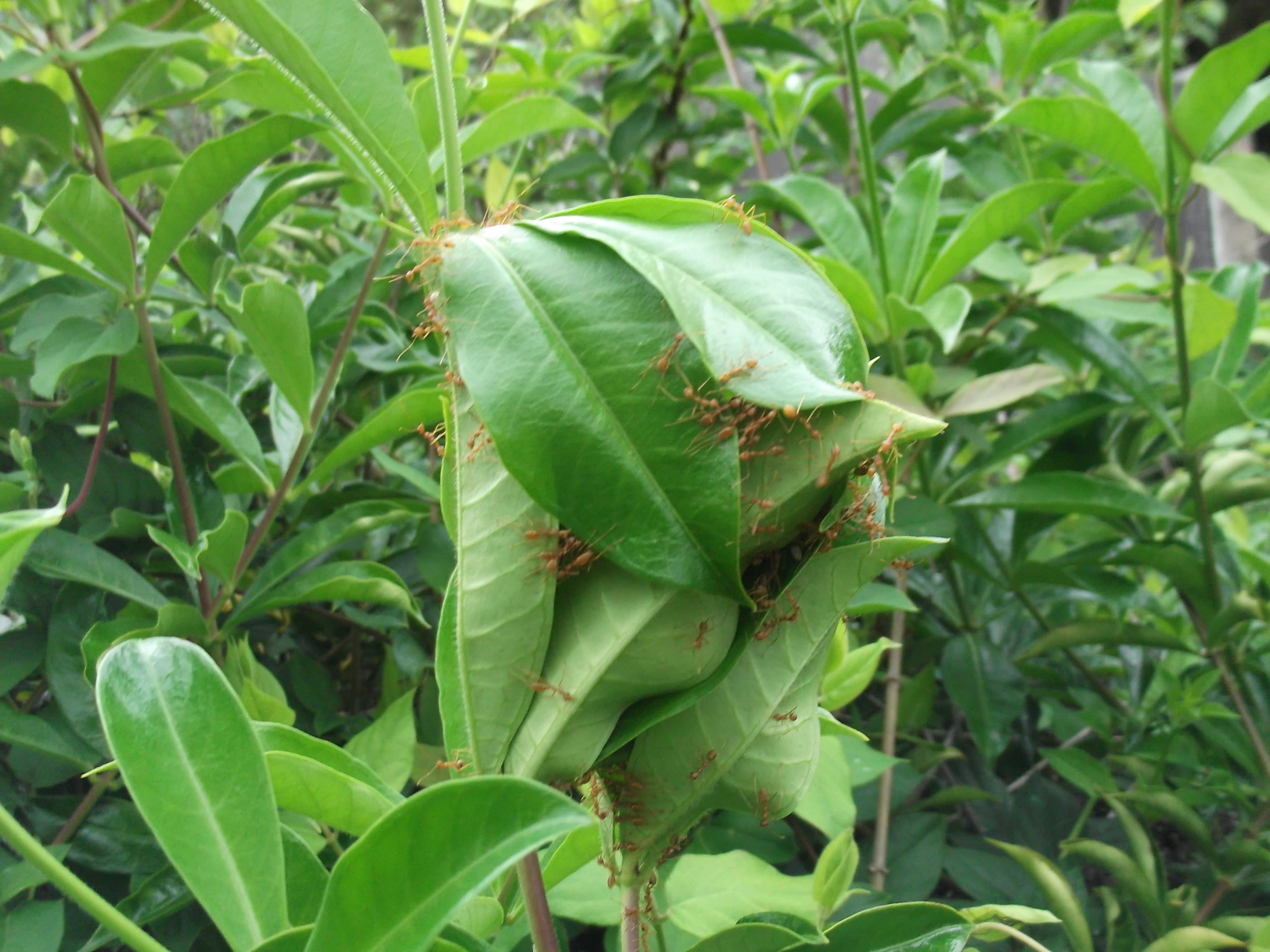 Ants with nest.